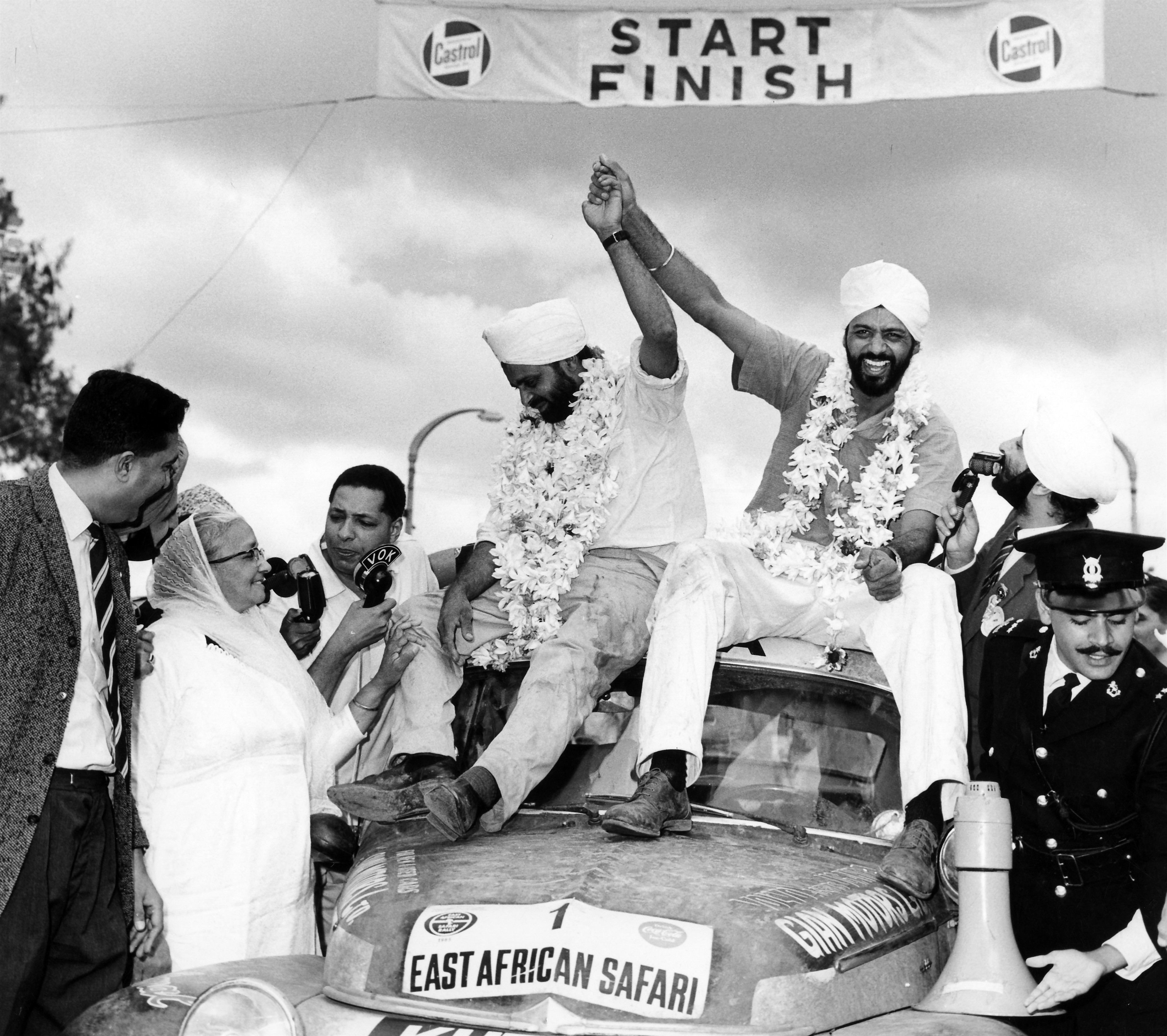 Joginder Singh, his brother Jaswant and their Volvo PV 544 claiming first place at the East African Safari Rally in 1965.